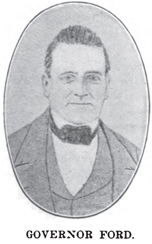 a Ohio Governor named Seabury Ford